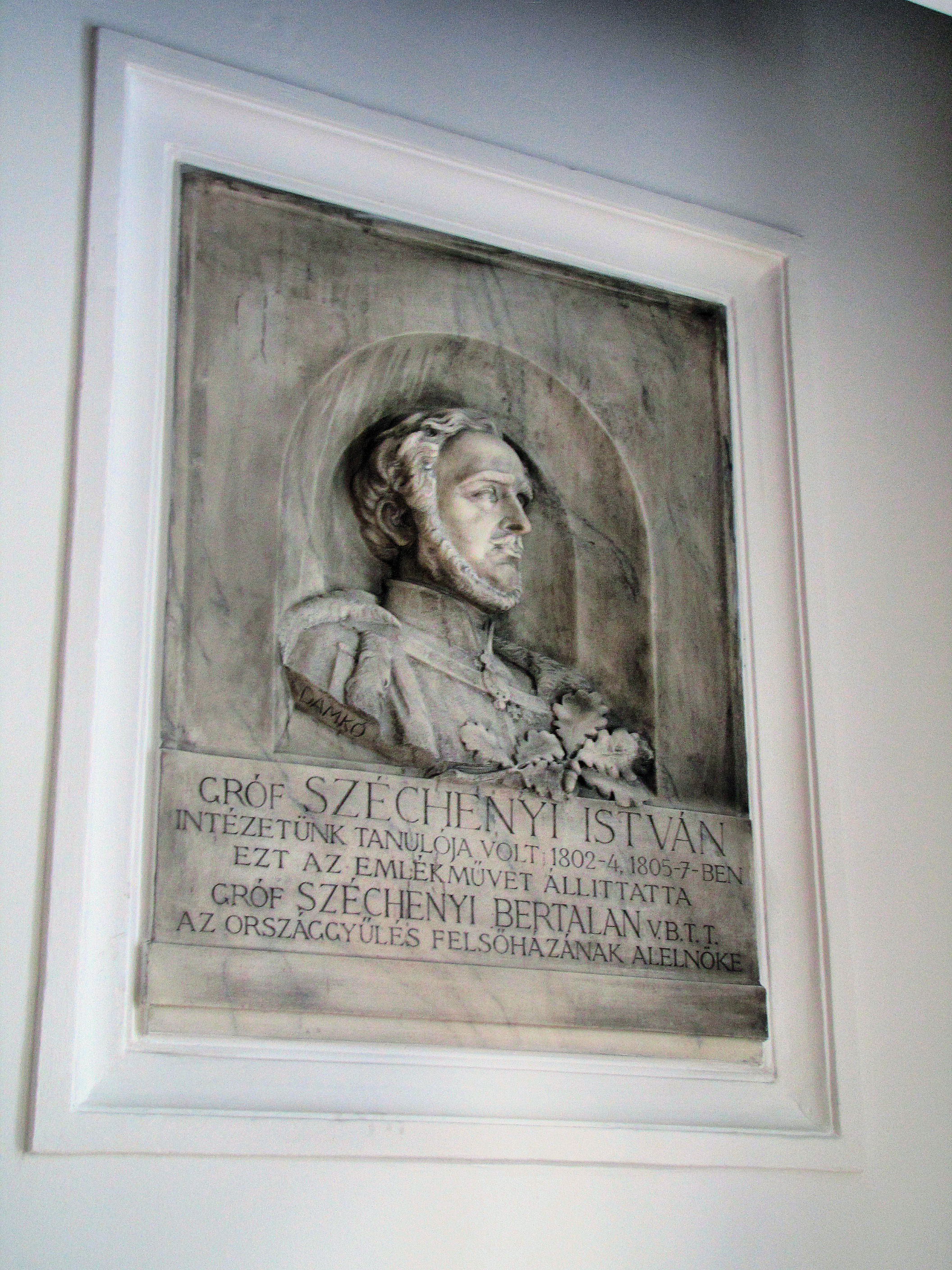 Memorial plaque of István Széchenyi in the Piarist High School, Budapest